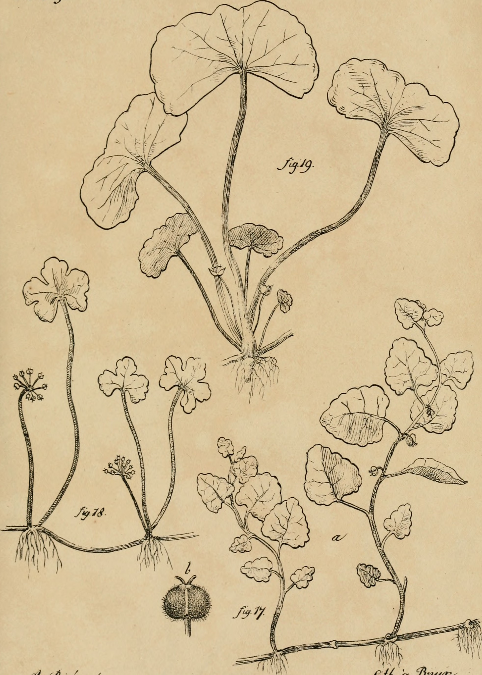 Title: Annales gnrales des sciences physiques Year: 1819-1821 (1810s) Authors: Bory de Saint-Vincent, M. (Jean Baptiste Genevive Marcellin), 1778-1846; Drapiez, Pierre Auguste Joseph, 1778-1856; Mons, Jean Baptiste van, 1765-1842 Subjects: Science; Plants Publisher: Bruxelles : De l'impr. de Weissenbruch Text Appearing Before Image: TNPa^, FLLVm. Text Appearing After Image: ^^. .J/uc^.ce.'u/ jUL'a.3'2^*àt:^